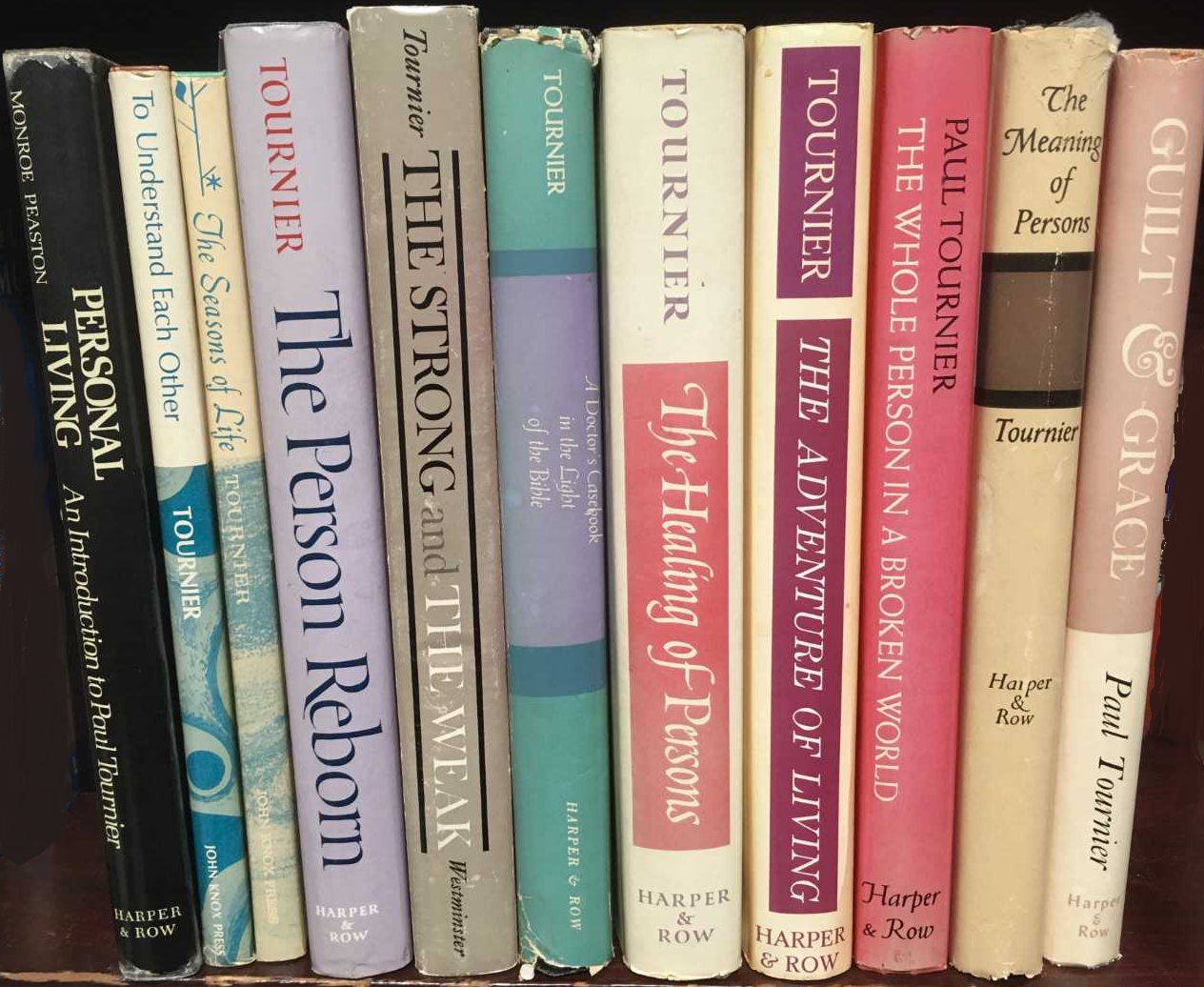 A collection of books by and about Paul Tournier. Photographed in the personal library of Rev. Einar Unseth.